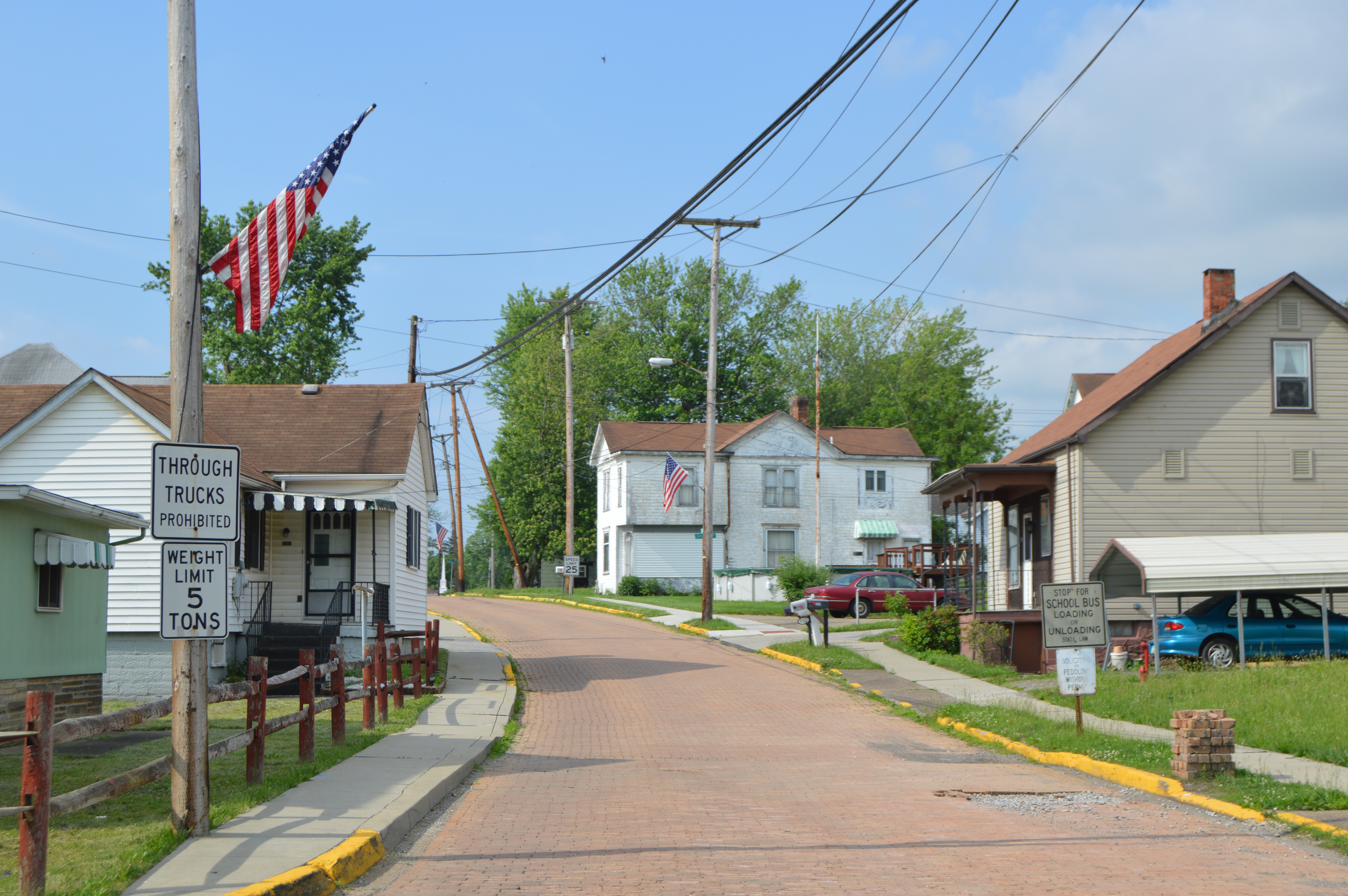 Looking south on Main Street from the Warren Street intersection in Rayland, Ohio, United States.